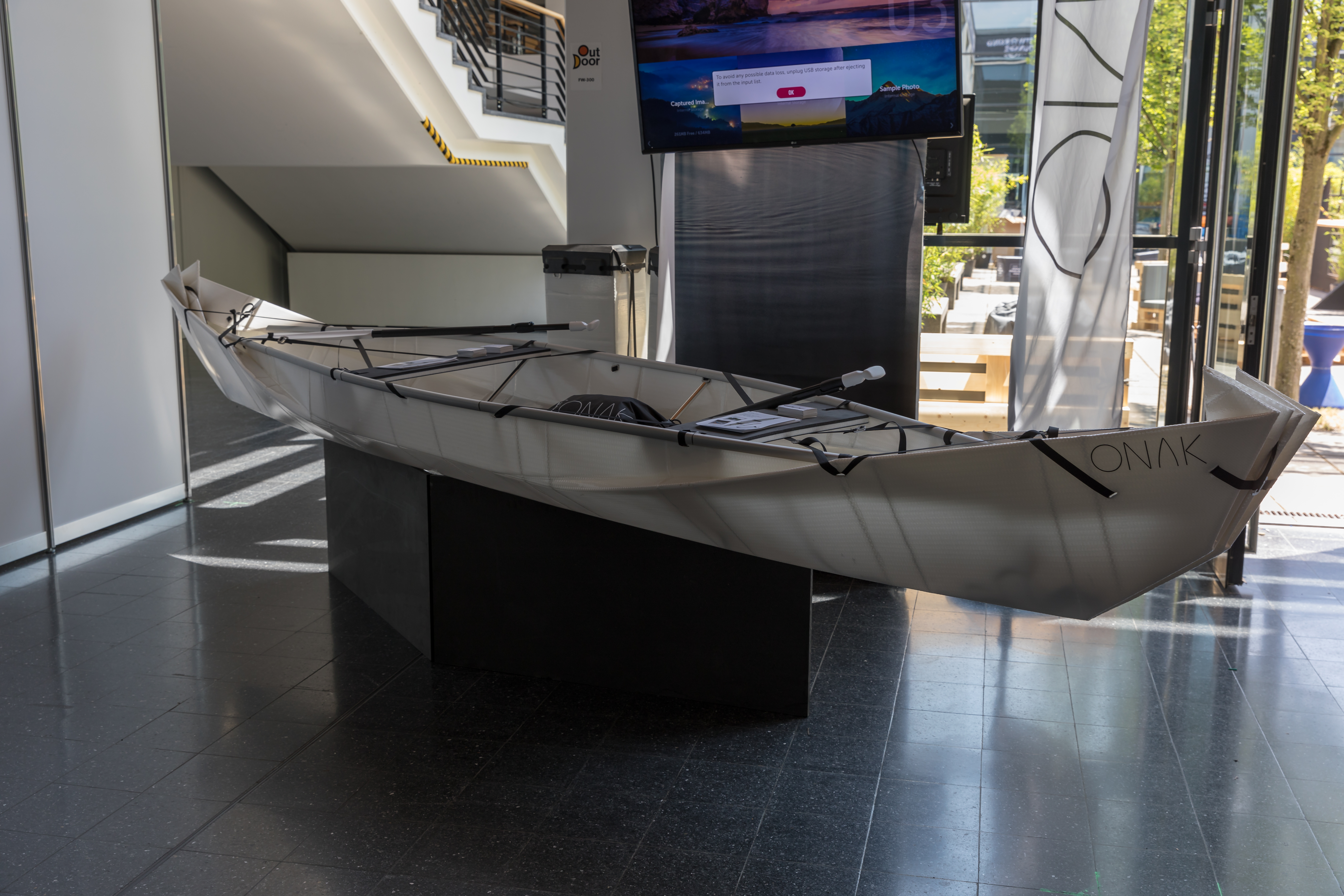 Press preview, OutDoor 2018